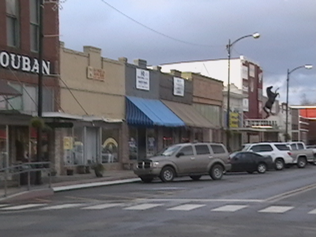 Building in the DeRidder Commercial Historic District